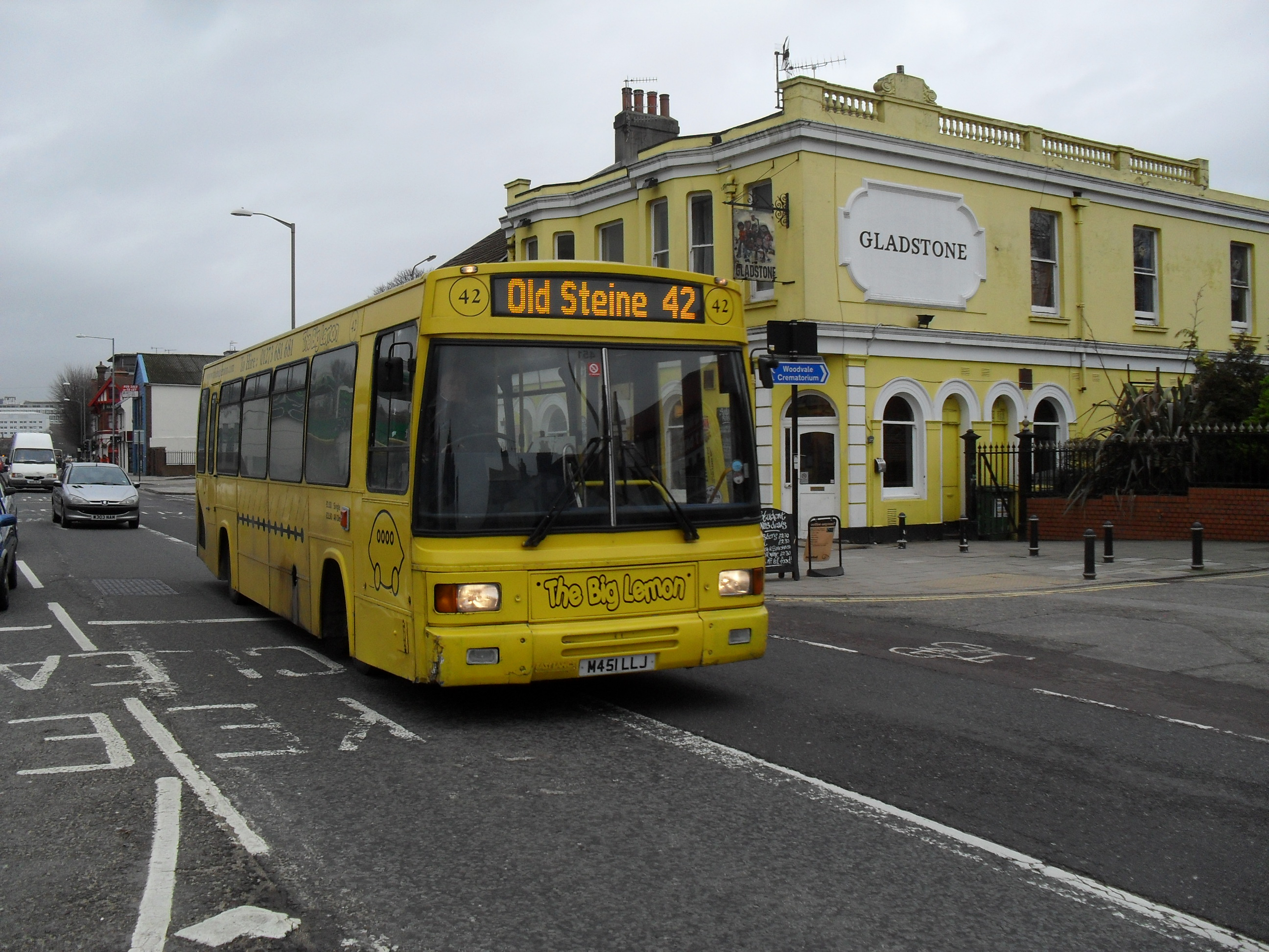 Until 1983, I would have been standing right under the Lewes Road viaduct, and the bus would have been passing under it too. Taken on 15th January 2011.